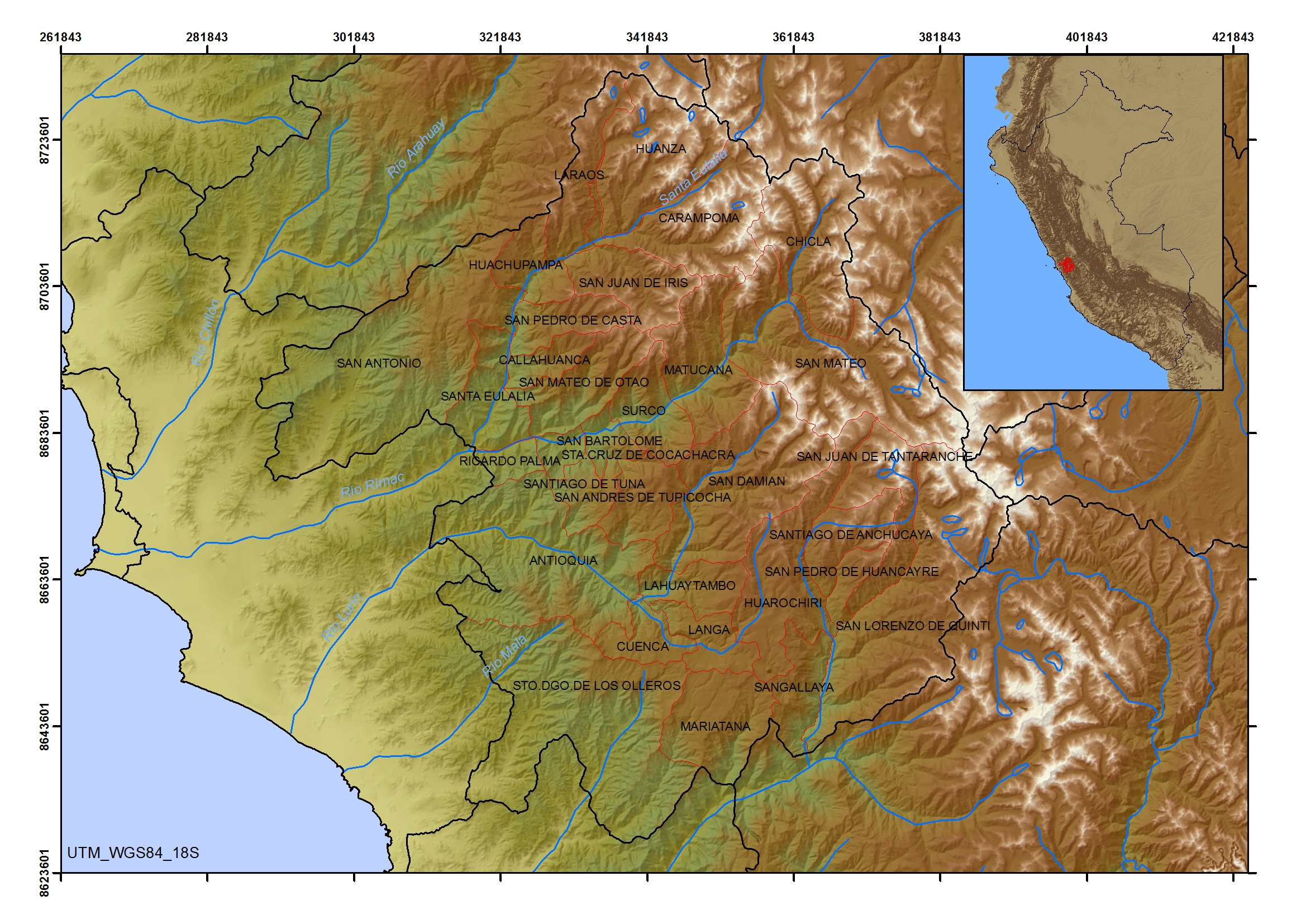 Huarochirí districts. Lima Region. UTM_WGS84_18S